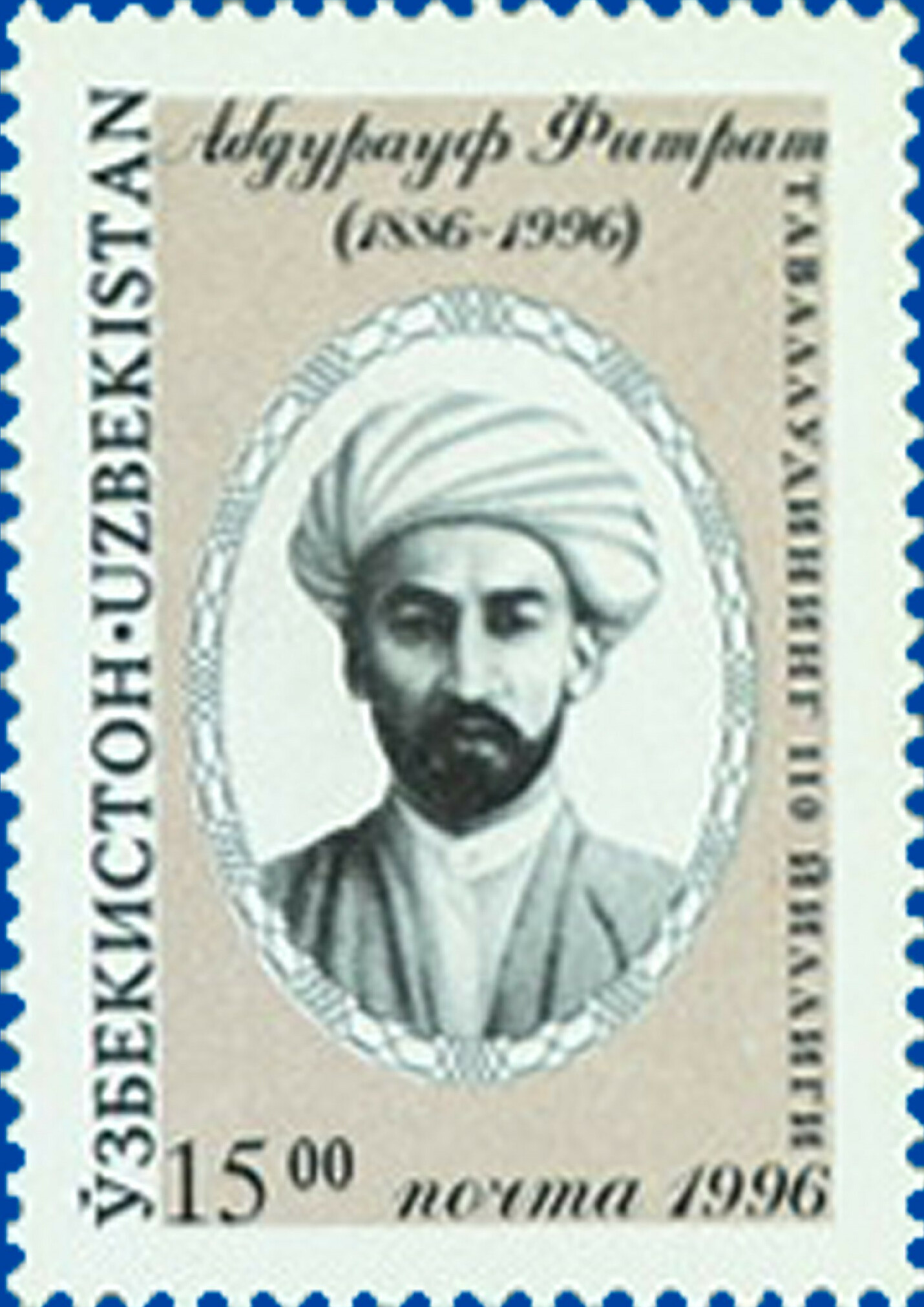 Stamp dedicated to Abdurauf Fitrat's 110th birthday